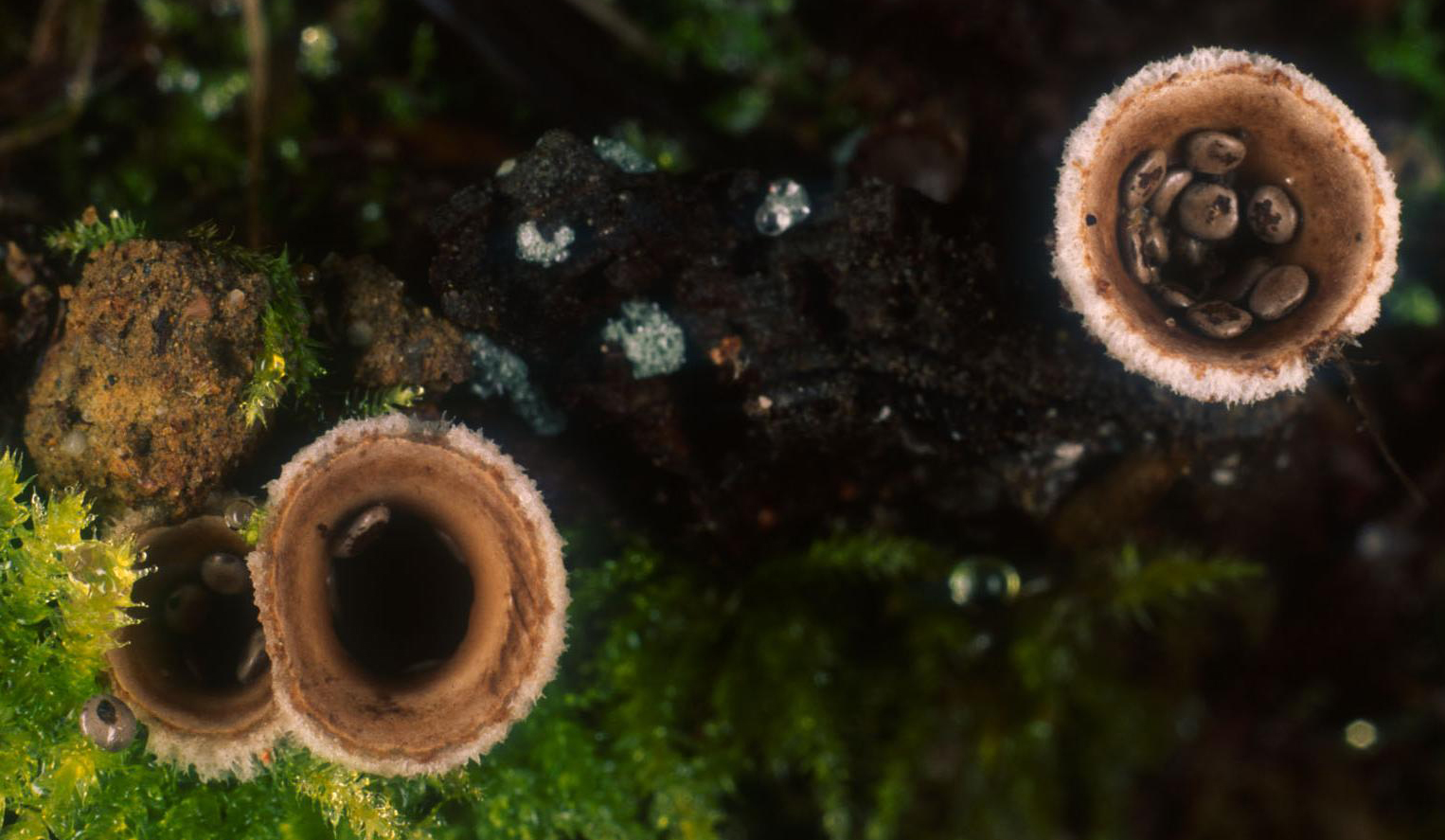 The bird's nest fungus Nidula candida. Specimen photographed "during a foray sponsored by the Fungus Federation of Santa Cruz to collect for the Santa Cruz Fungus Fair."